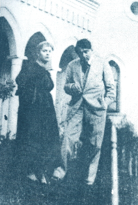 Ady Endre and his wife Boncza Berta at Ciucea castle